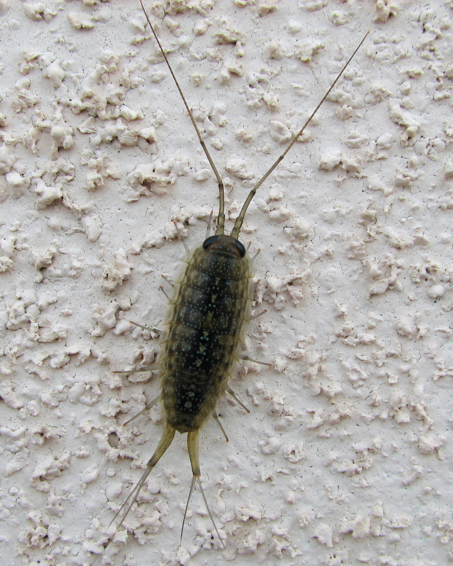 Ligia sp., picture taken in Beppu on the Japanese island Kyushu. Species possibly L. exotica or L. ryukyuensis.